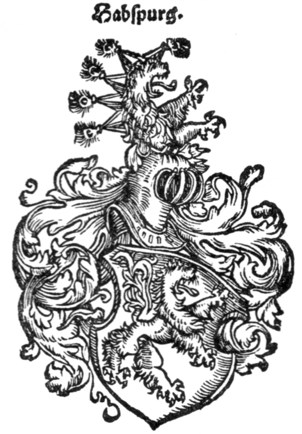 Old coat of arms of the dynasty of Habsburg. Woodcut from the Chronicle of Stumpf, 1548